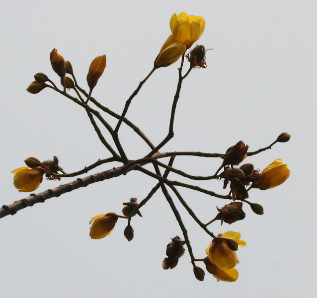 Yellow Silk Cotton Cochlospermum religiosum in Kolkata, West Bengal, India.